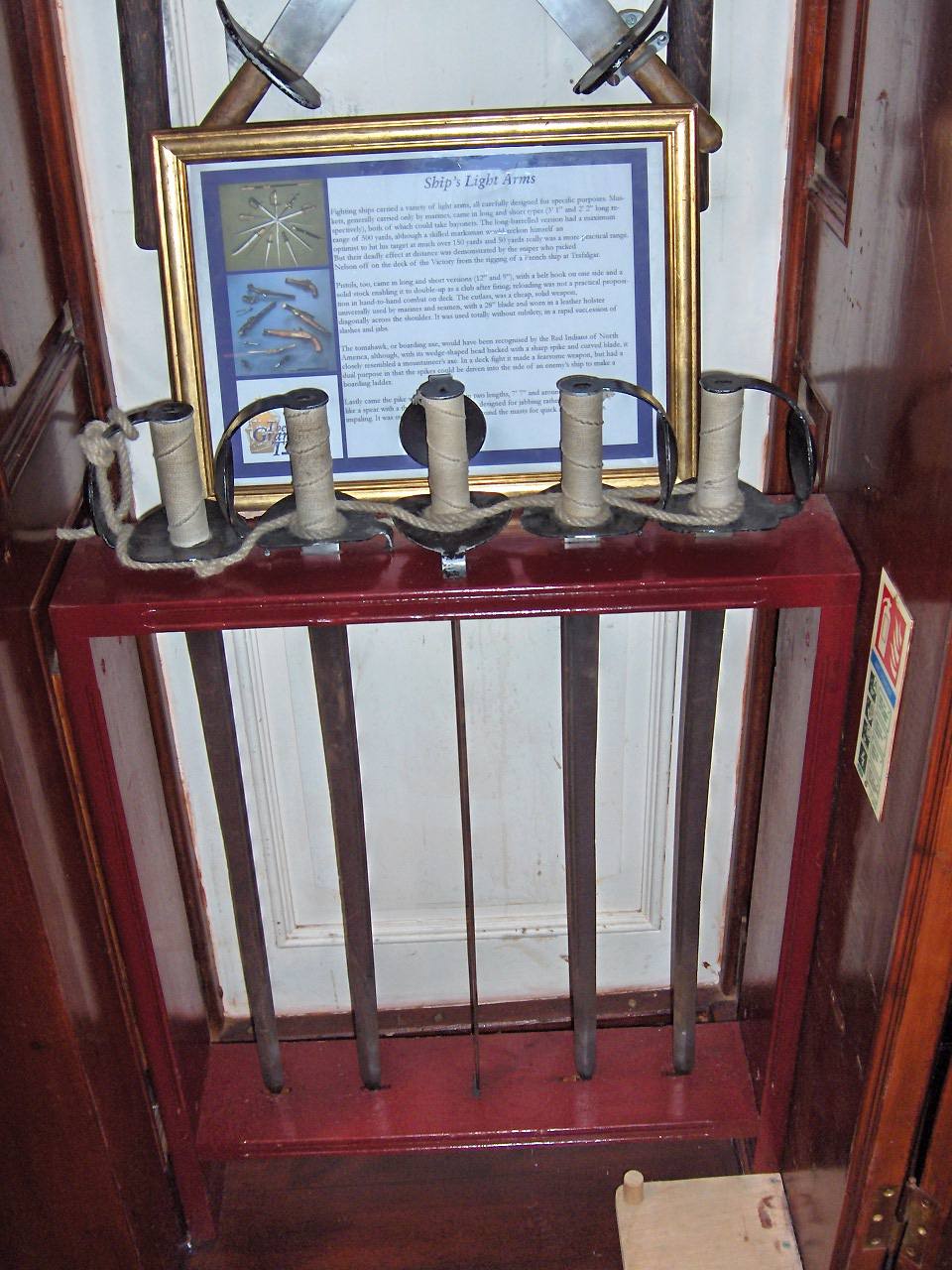 Grand Turk, a replica of a three-masted 6th rate frigate from Nelson's days - cutlasses